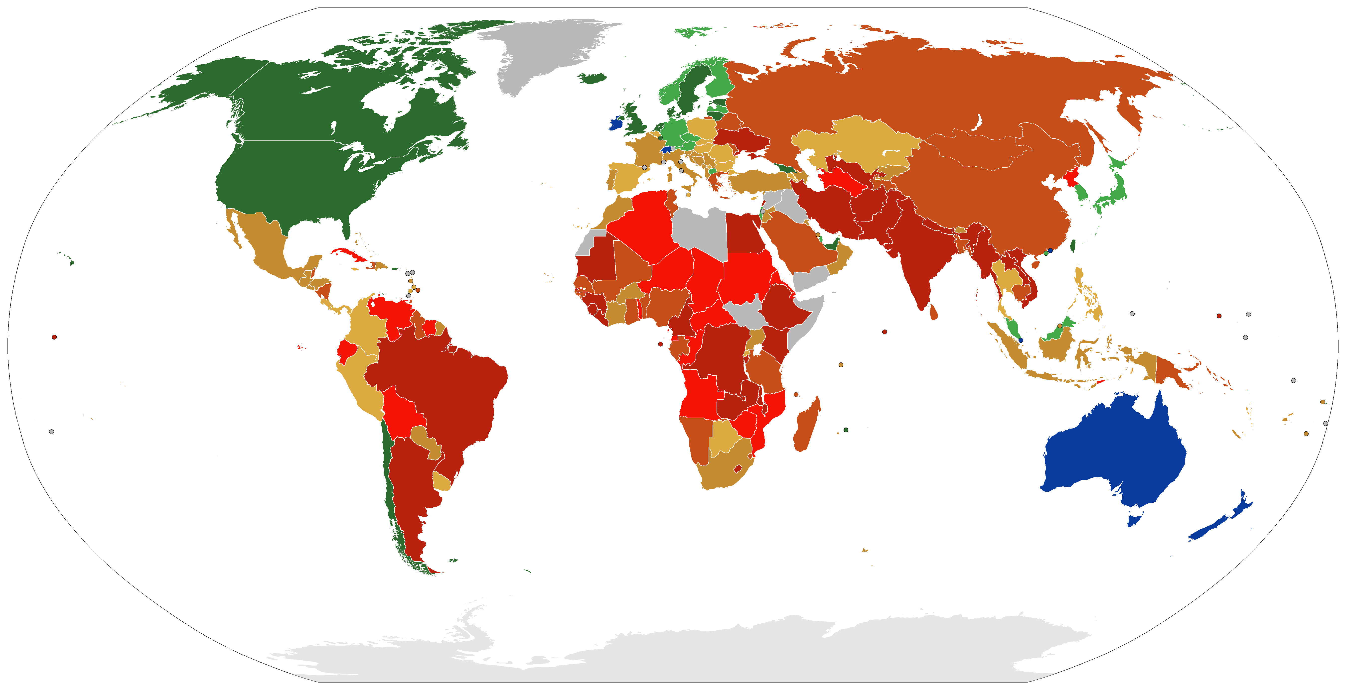 The 2018 Heritage Foundation Index of Economic Freedom overall heatmap. Free 75–100 70–74.9 Moderately Free 65–69.9 60–64.9 Mostly Unfree 55–55.9 50–54.9 Repressed 0–49.9